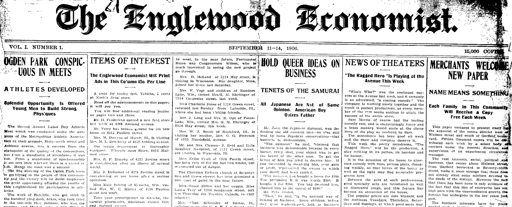 Portion of front page of first issue of The Englewood Economist